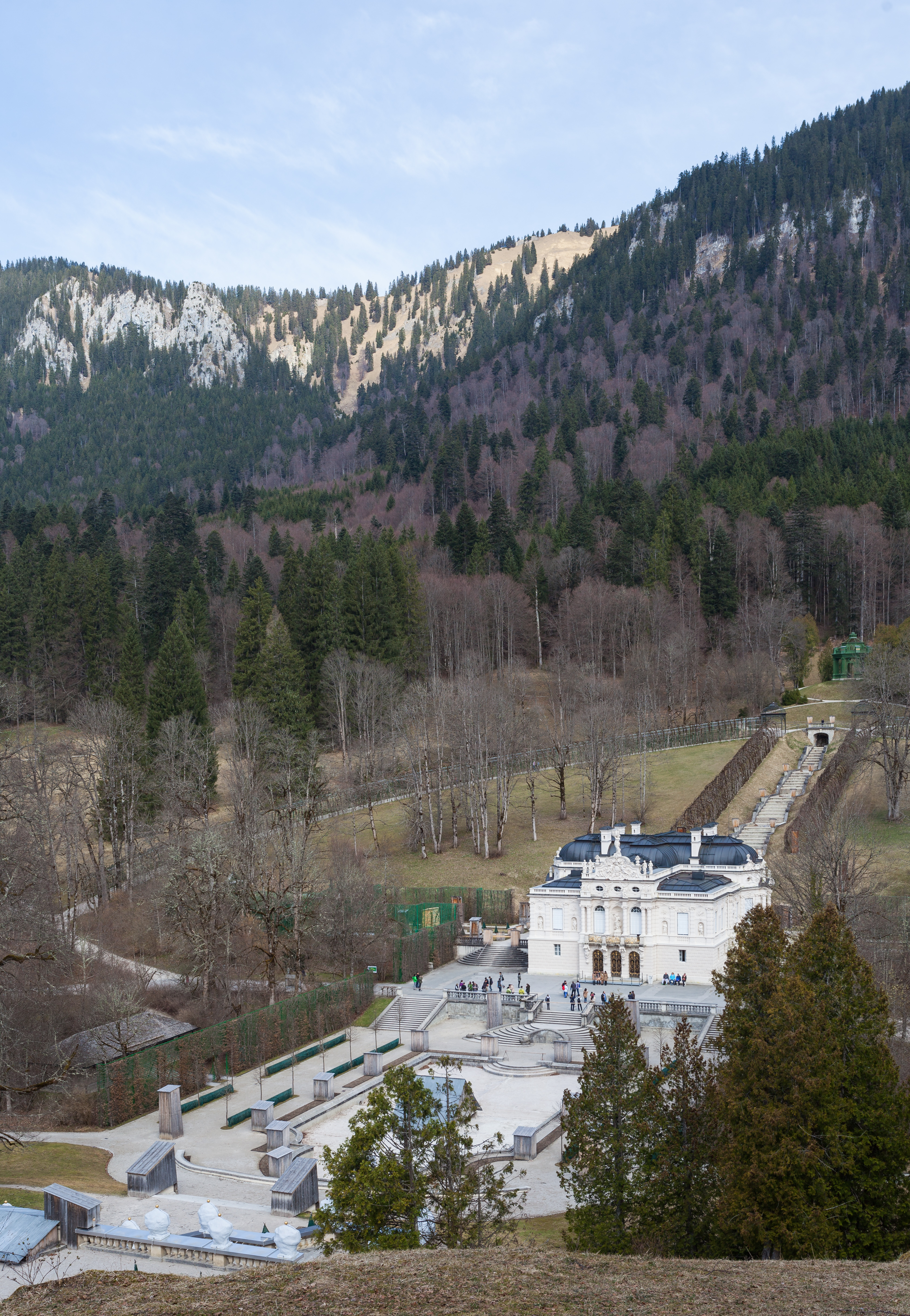 Linderhof Palace, Bavaria, Germany